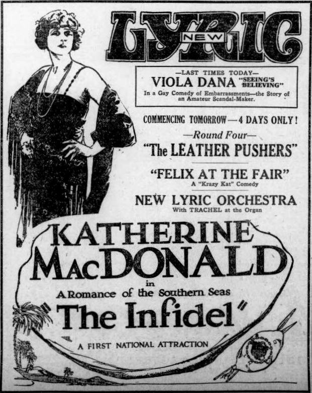 Newspaper advertisement for the American drama film The Infidel (1922) with Katherine MacDonald, on page 7 of the May 20, 1922 Duluth Herald.